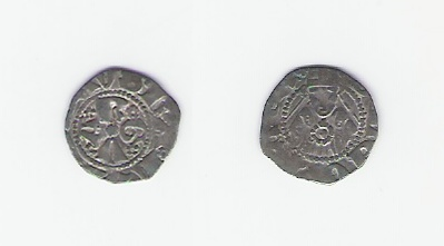 A silver "Bolognino" made in the mint of Guardiagrele, in the province of Chieti, Abruzzo